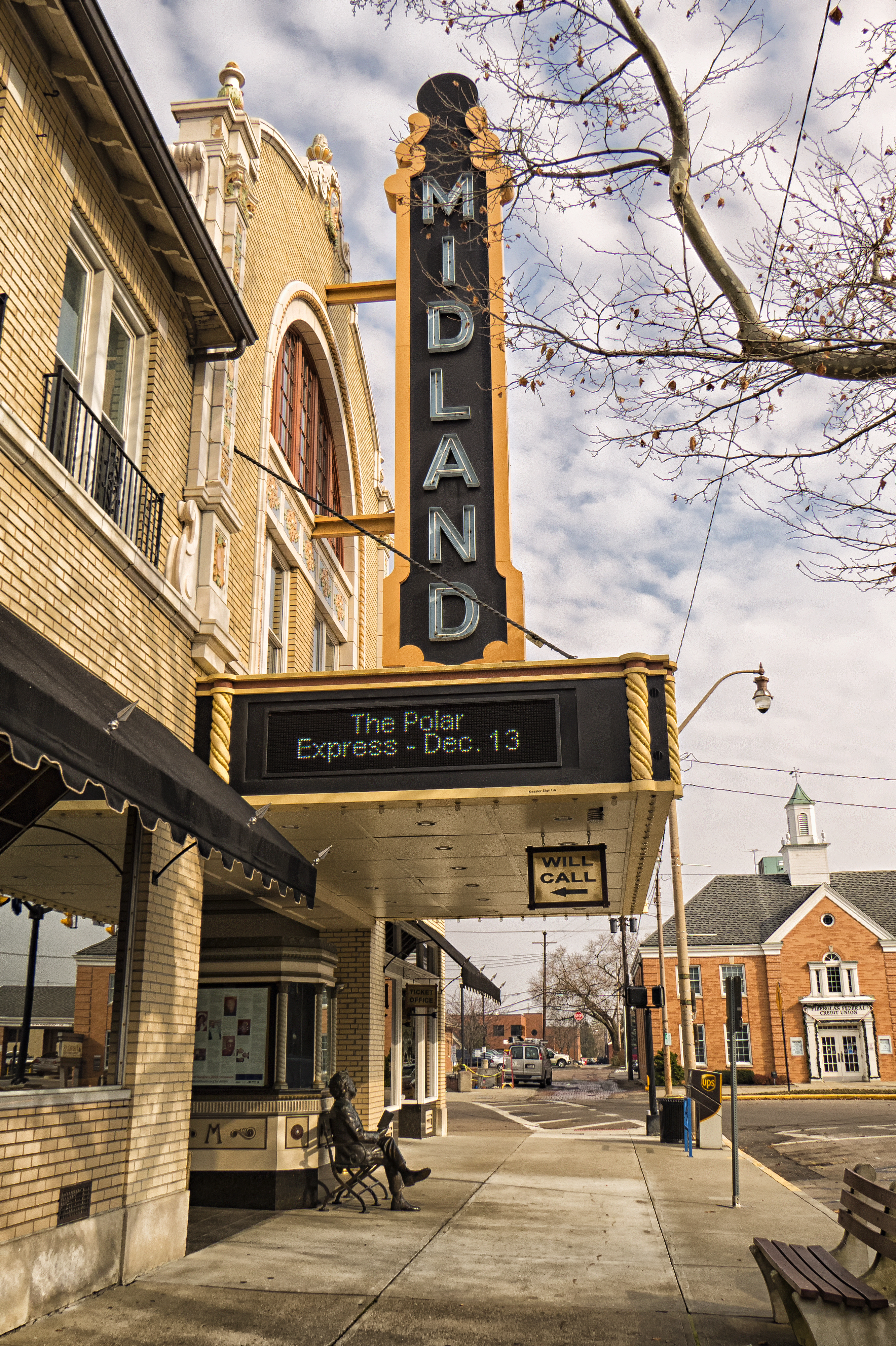 The Midland Theater in Newark, Ohio, United States. The Midland Theater is a restored theater with beautiful details from the 1920's. The sculpture in front of the theater entrance is of Mark Twain reading a book.